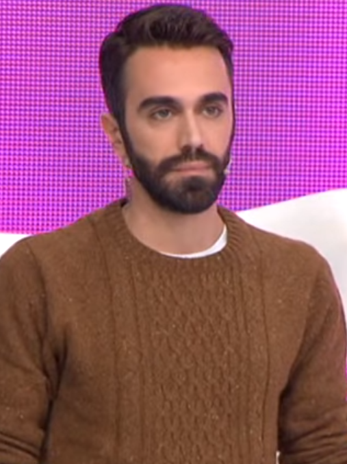 Turkish director, photographer and singer Kemal Doğulu during a TV-show called İşte Benim Stilim.